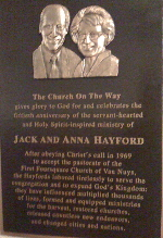 This is a plaque that was awarded to Jack and Anna Hayford in honor of their years in ministry.